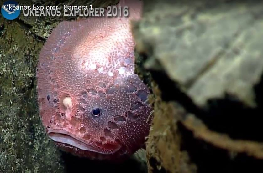 Chaunacops coloratus seen in the abyss by NOAA Okeanos mission.